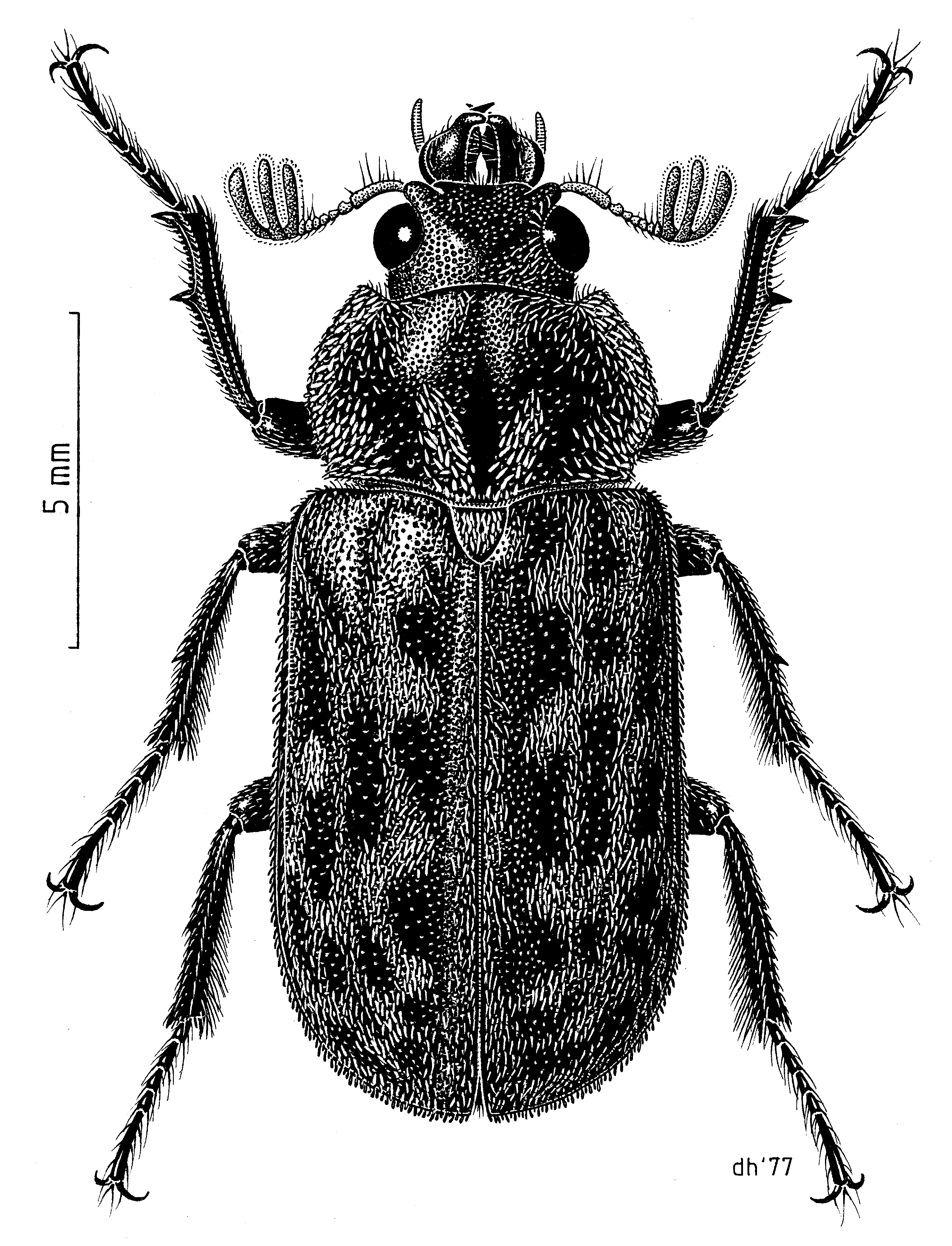 (Coleoptera: Lucanidae) Mitophyllus parrianus illustrated by Des Helmore. (fig. 78 in Holloway, B.A. (2007) "Lucanidae (Insecta: Coleoptera)". Fauna of New Zealand. 61)